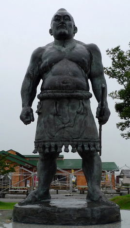 this is an image, obtained from the web, of a public work statue of Maruyama Gondazaemon